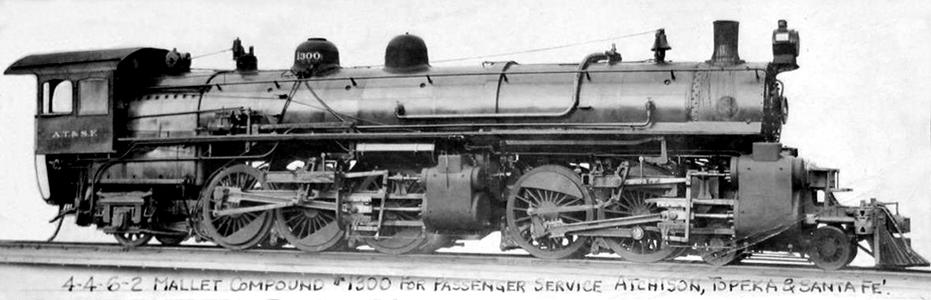 Manufacturer's photo of 4-4-6-2 Mallet locomotive for AT&SF Railroad